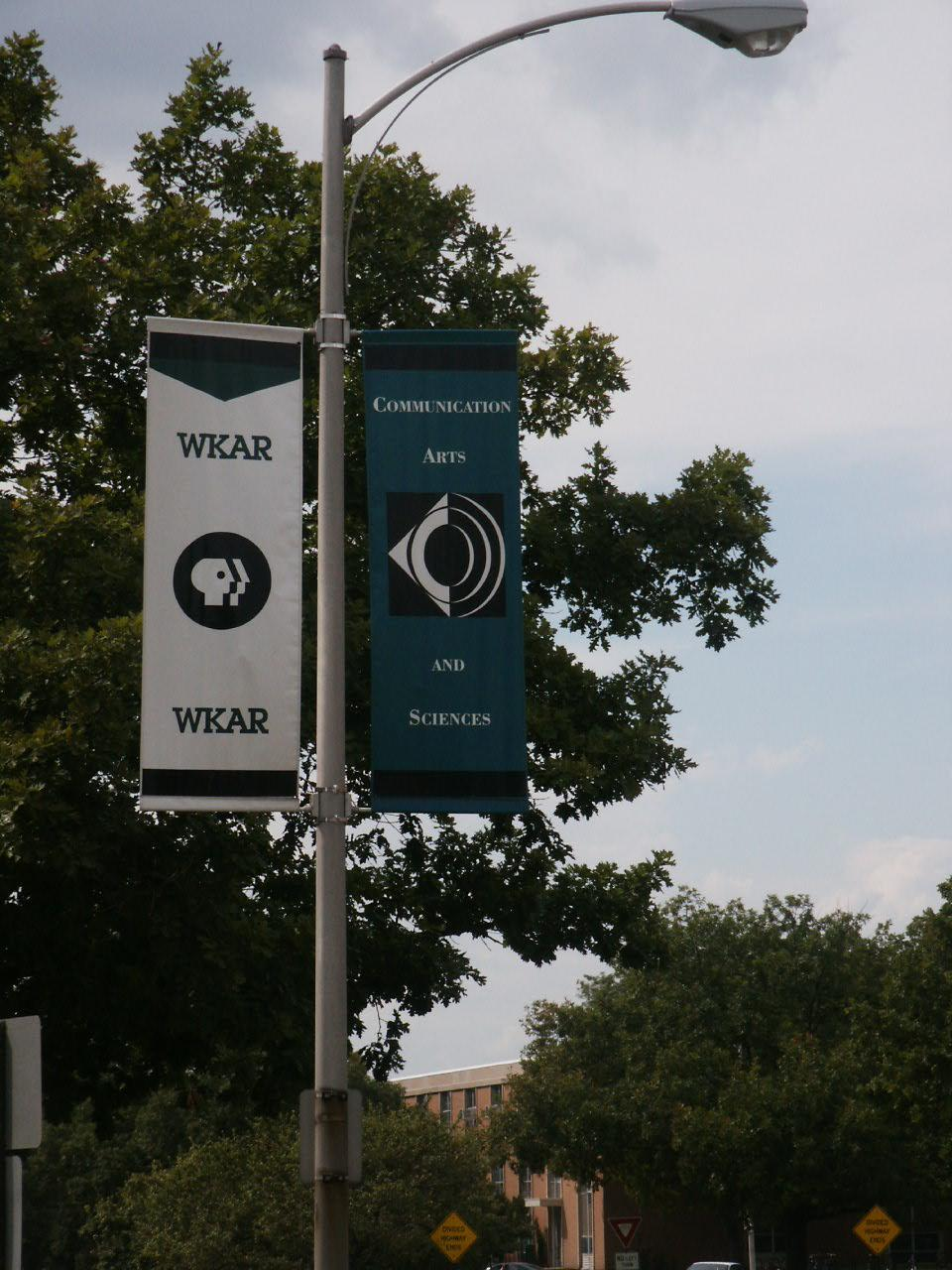 College of Communication Arts and Sciences, Michigan State University, Photo taken by Branislav Ondrasik